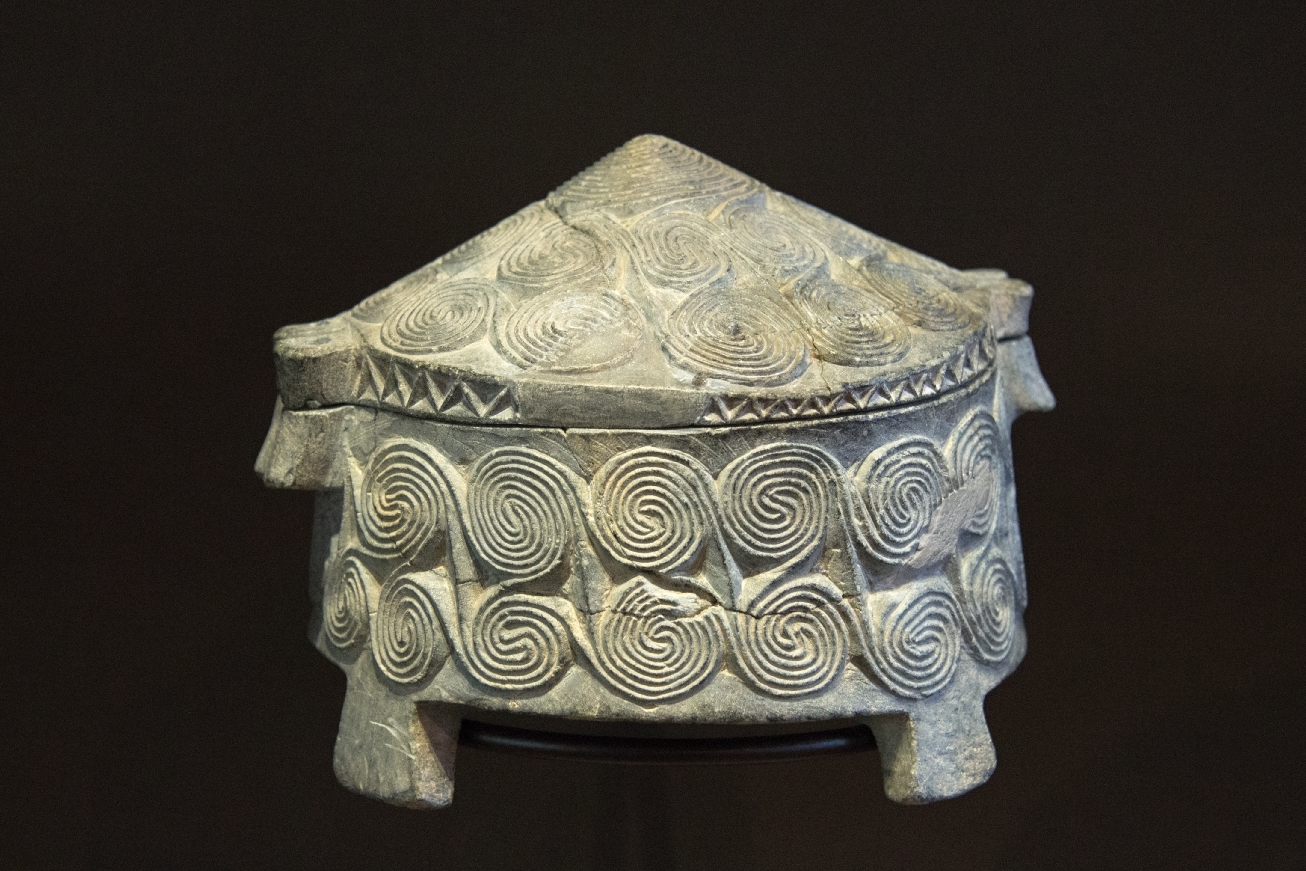 Early Cycladic Pyxis. Diameter max. 13 cm, height 6.5 cm. Steatite, 2700 - 2300 BC. Find from island Amorgos. Antikensammlung Berlin, Ident. N. Misc. 8102 (now in the Neues Museum in Berlin).